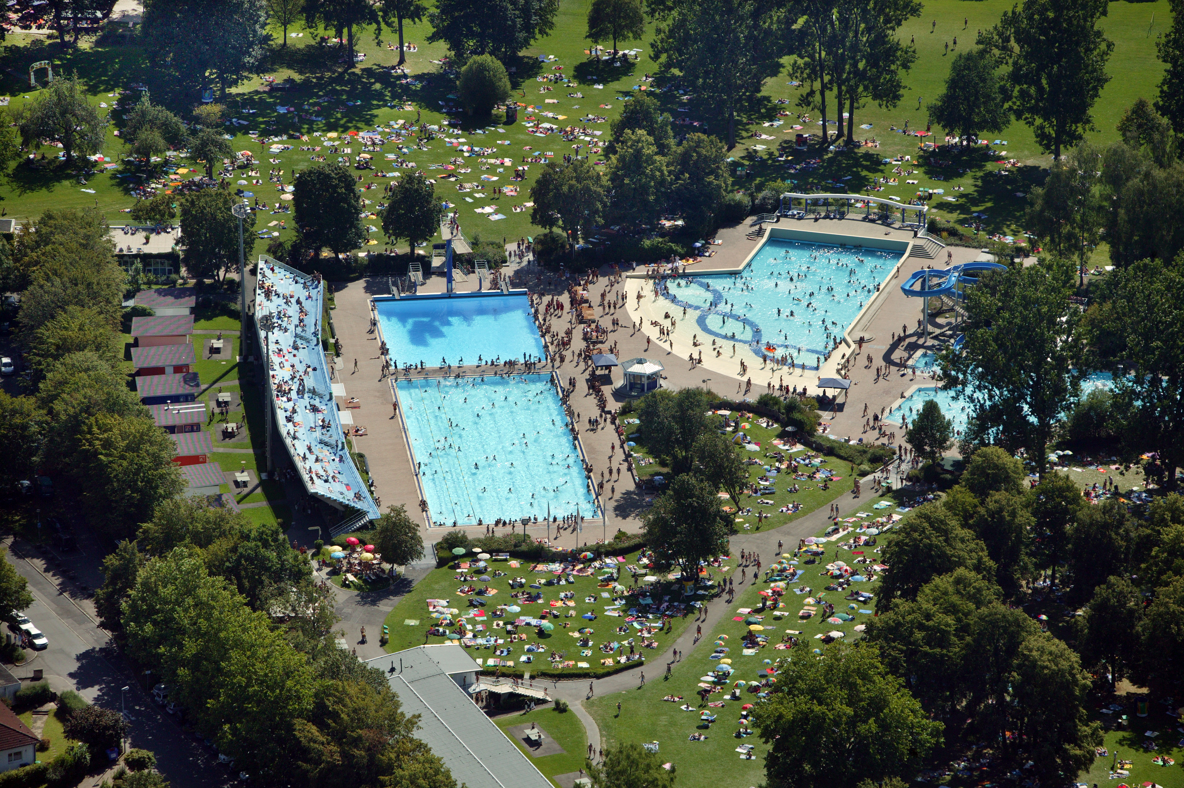 Luftbildaufnahem Wellenfreibad Markwasen 2005